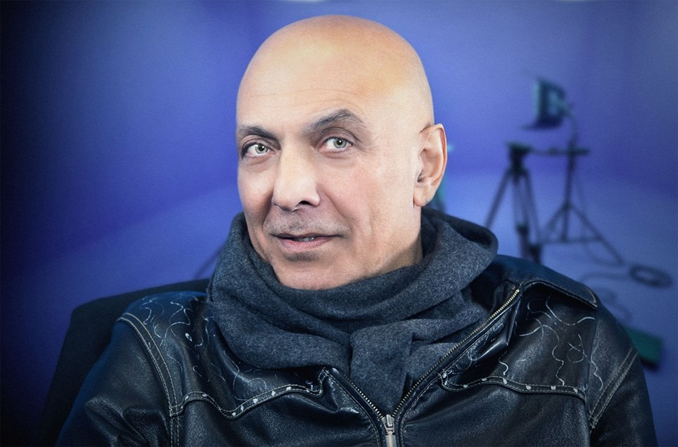 Daryush Shokof by Magic Cube